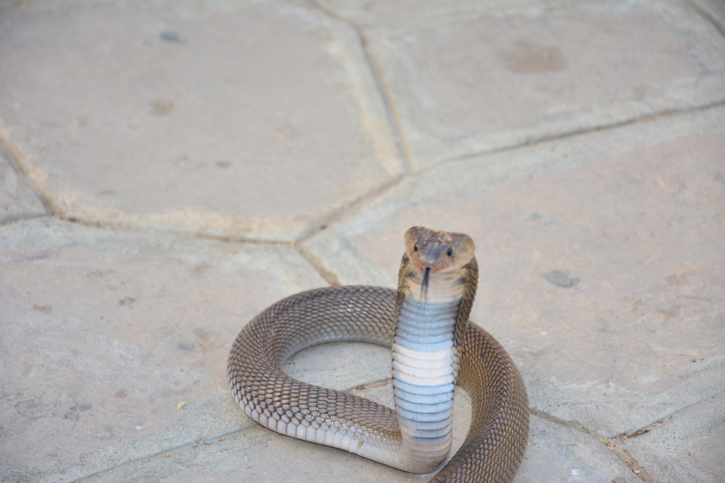 Snake in Egypt